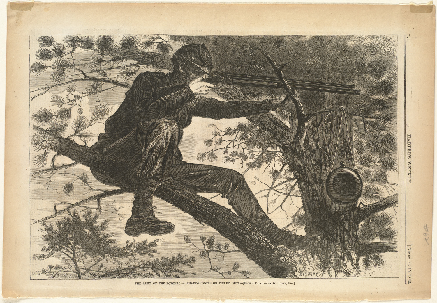 File name: 10_09_000062 Genre: Wood engravings; Periodical illustrations Notes: Published in: Harper's Weekly, Volume VI, 15 November 1862, p. 724.; From a painting by W. Homer, Esq.; Signed lower right: Homer. Collection: Winslow Homer Collection Location: Boston Public Library, Print Department Rights: No known restrictions Flickr data on 2011-08-11: Camera: Sinar AG Sinarback 54 FW, Sinar m Tags: Winslow Homer User: Boston Public Library BPL